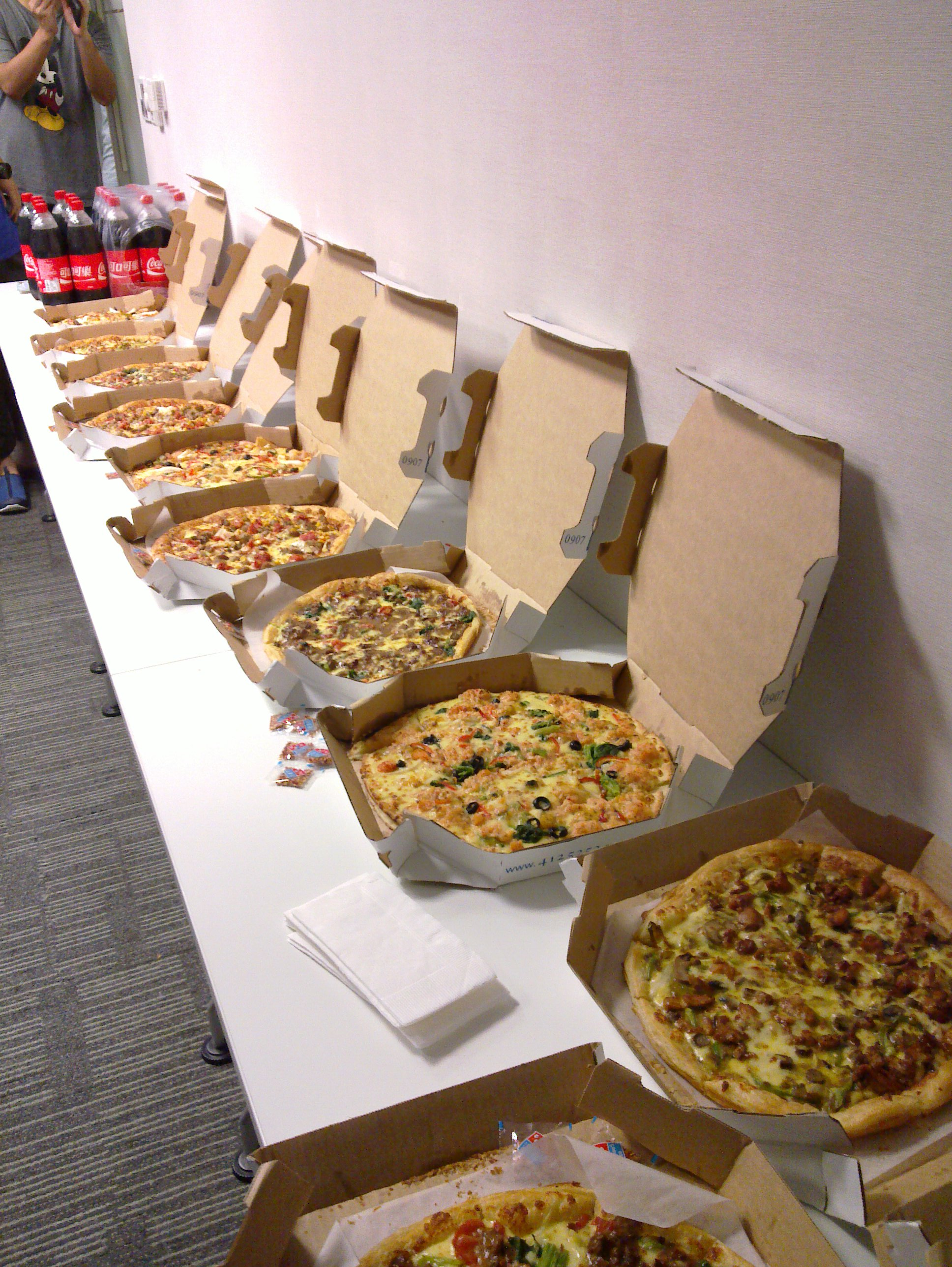 Ubuntu 10.10 Countdown Party at Taipei 101.